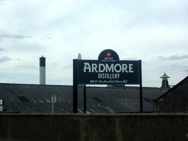 Ardmore Distillery Home of Wm Teacher & Sons Ltd. By Kennethmont Station.